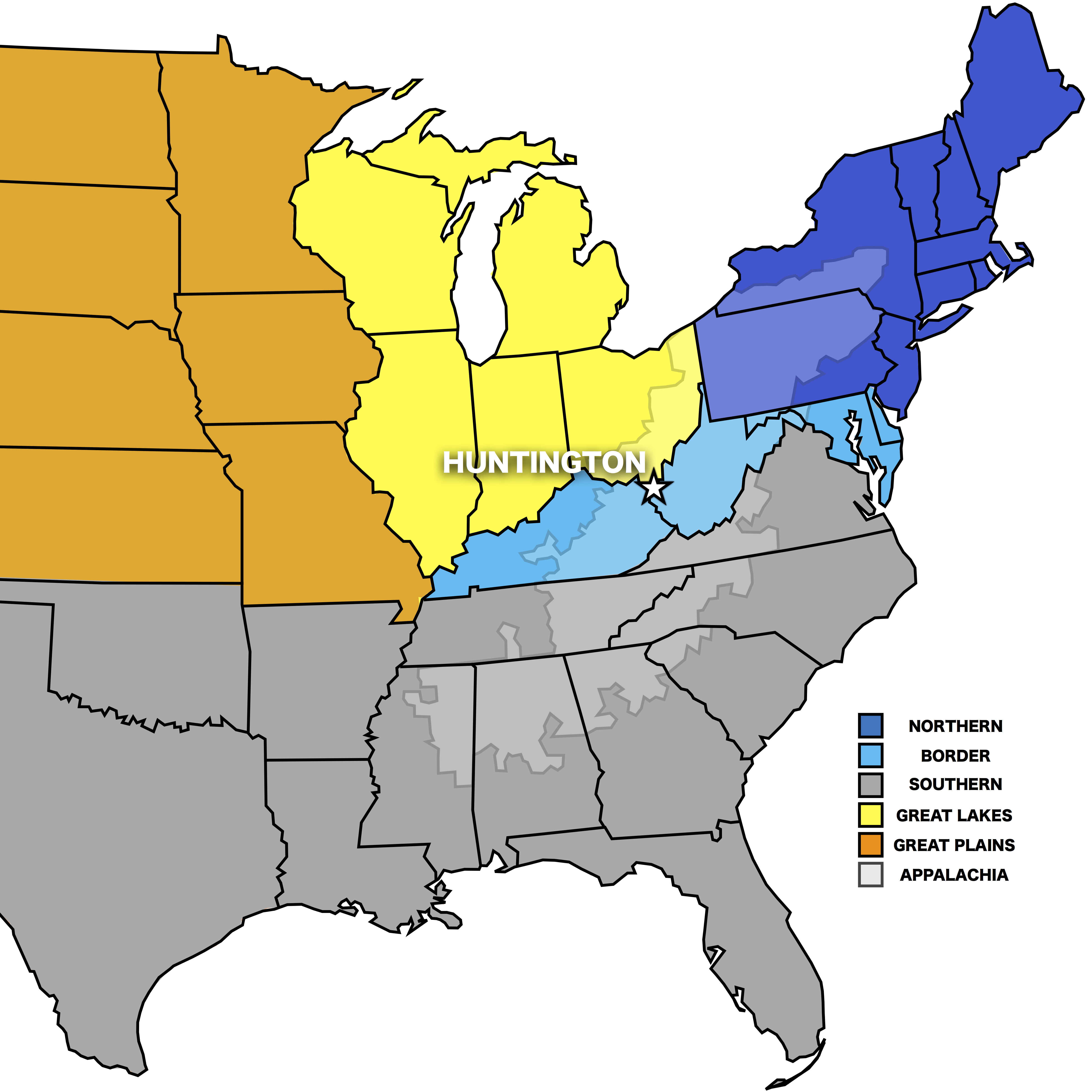 Map of the geographical regions around Huntington, WV, according to the U.S. Census Bureau.